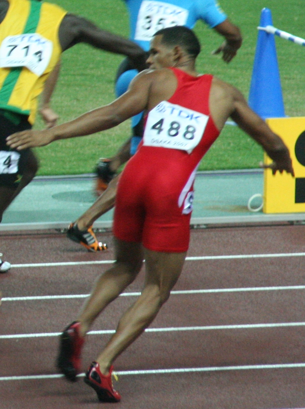 World Athletics Championships 2007 in Osaka - Exchange during a men's 4*400 metres heat: Yoel Tapia (Dominican Republic)